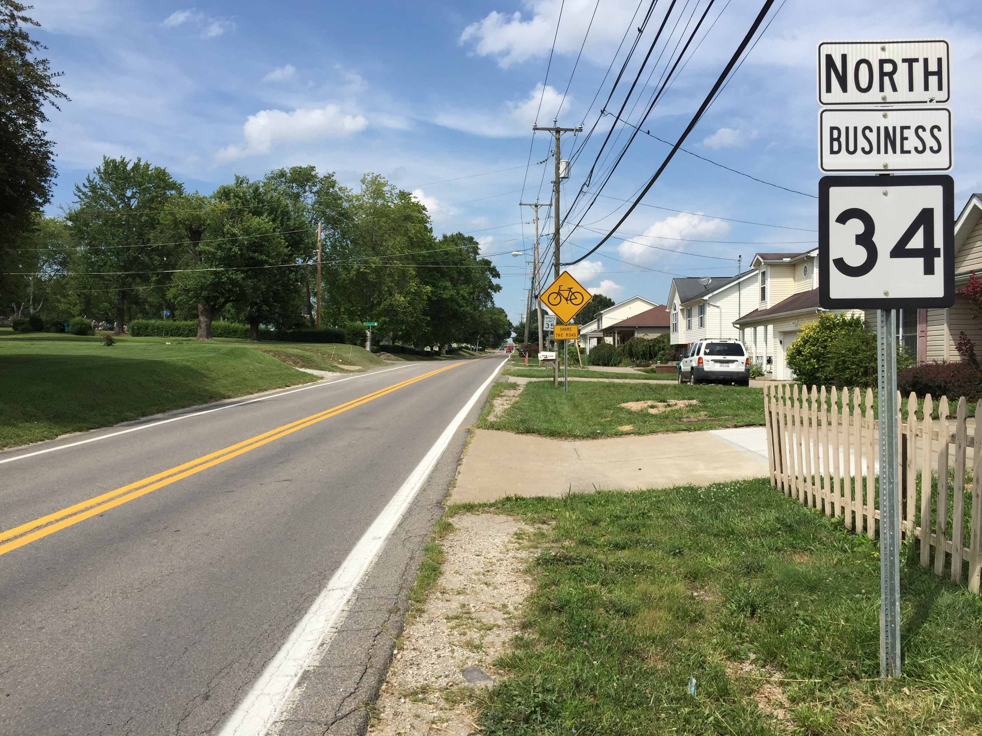 View north along West Virginia State Route 34 Business (Main Street) at Shaw Lane in Hurricane, Putnam County, West Virginia